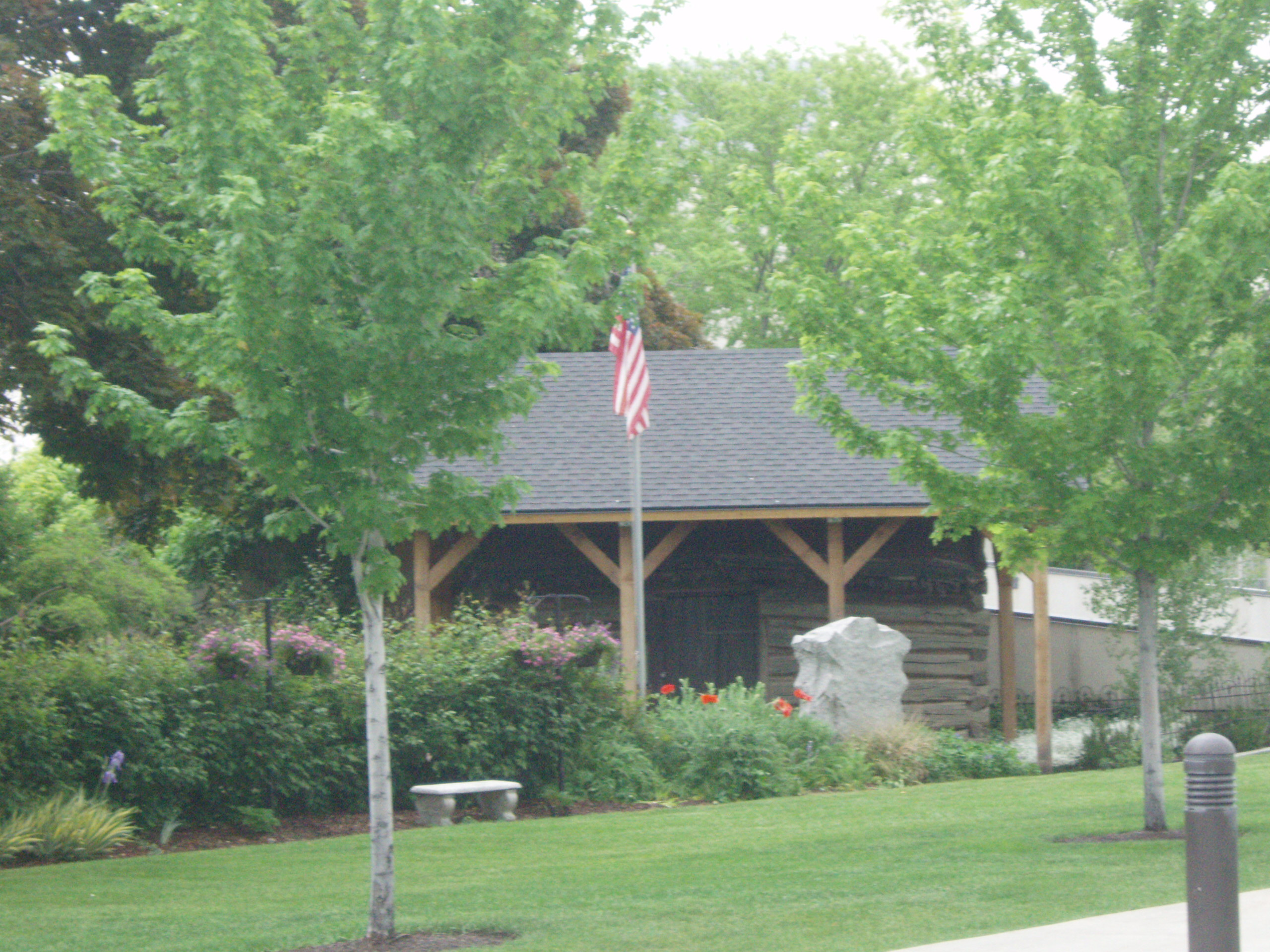 The Miles Goodyear Cabin, built circa 1841 by Miles Goodyear, was the first known permanent house built in Utah, United States.